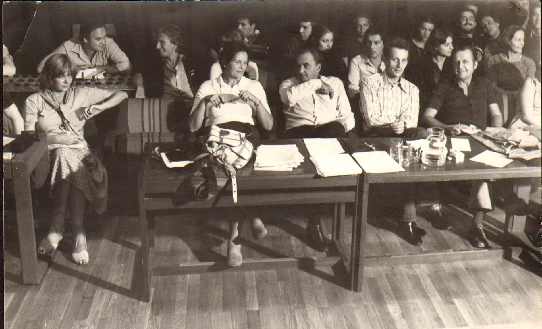 Admission to the Faculty of Dramatic Arts, Belgrade. In the front row sitting, from left to right: Gorica Popovic, Ognjenka Milicevic, Minja Dedic, Predrag Bajcetic i Milenko Maricic; in the second row from left:Vladimir Jevtovic